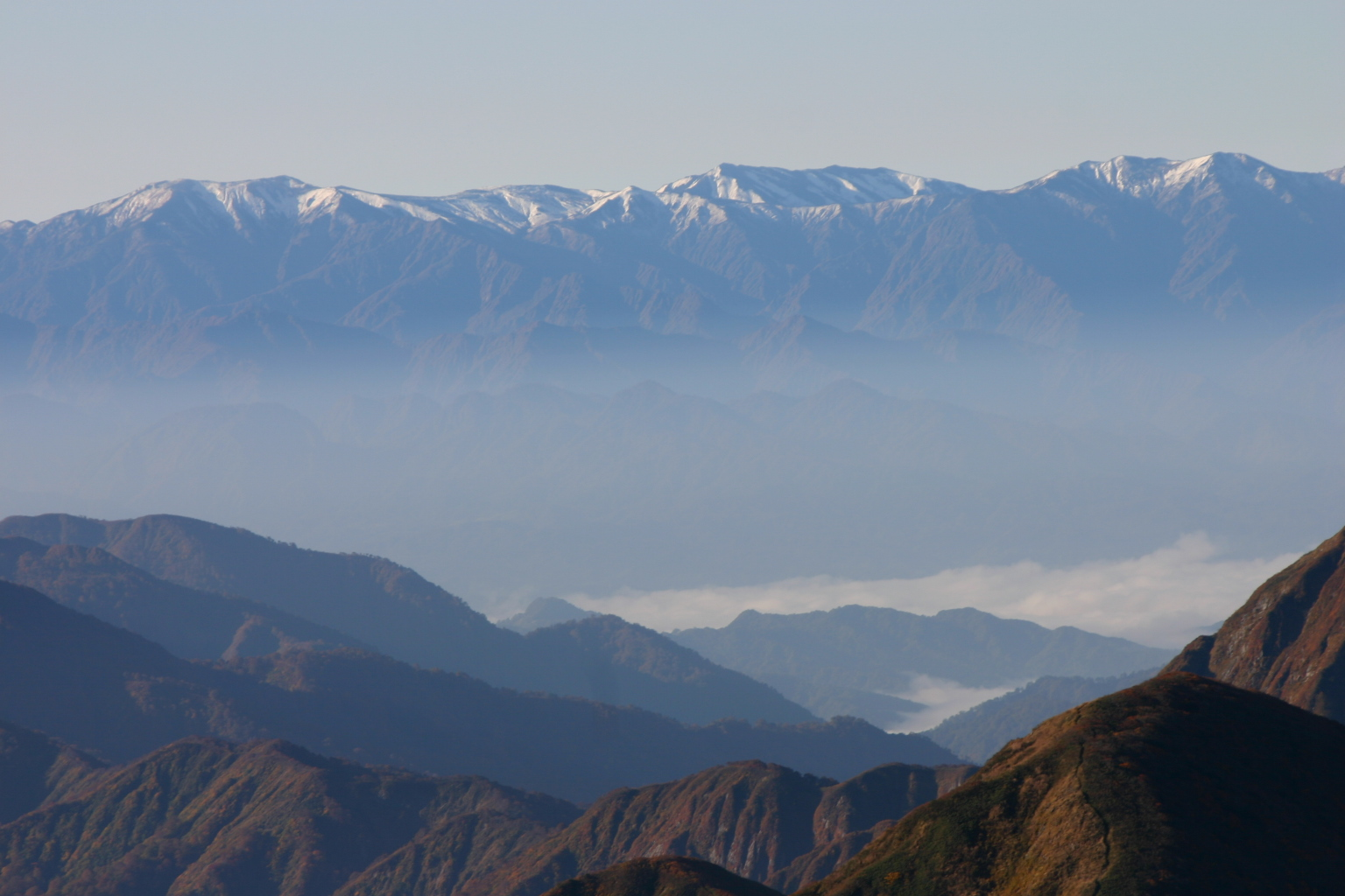 Iide Mountains as seen from Mount Oasahi